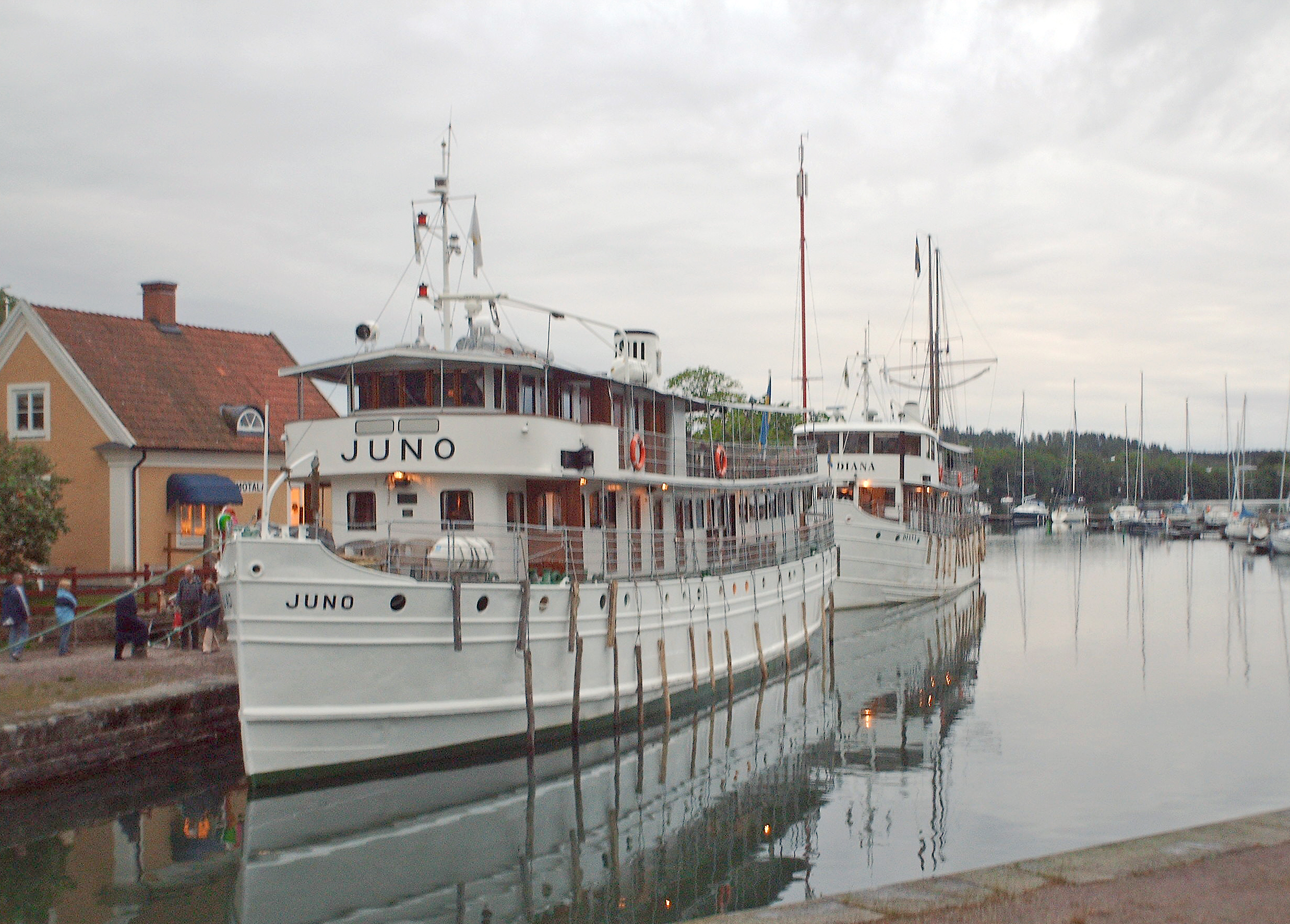 M/S Juno and M/S Diana in Motala harbour. This is an image of the protected Swedish ship M/S Juno, with call sign SFCD .